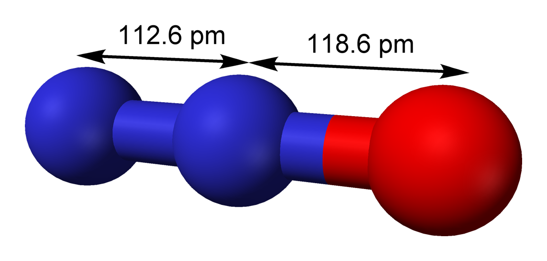 Ball-and-stick model of nitrous oxide, N2O, with interatomic distances labelled